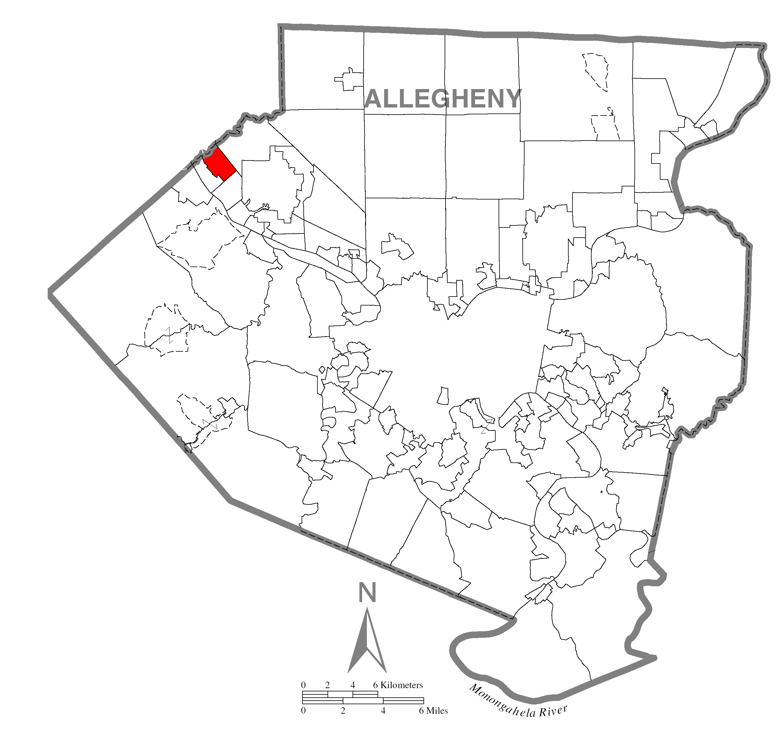 A map of Allegheny County showing Leet Township, Pennsylvania (alternate) highlighted on the map.